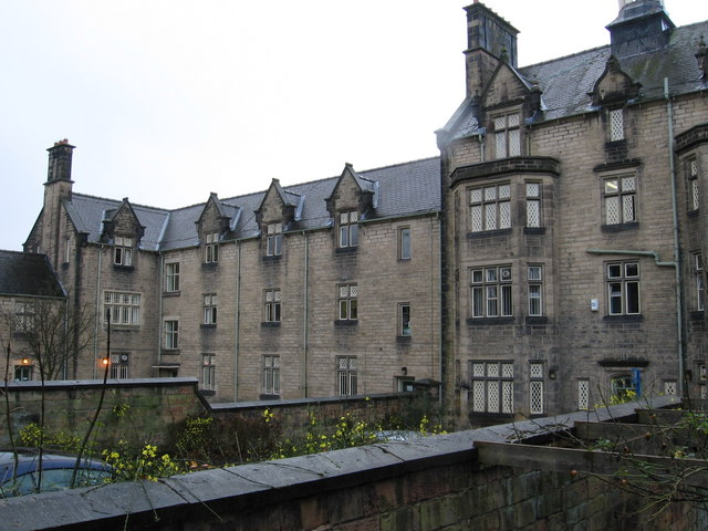 Belper - Babbington Hospital